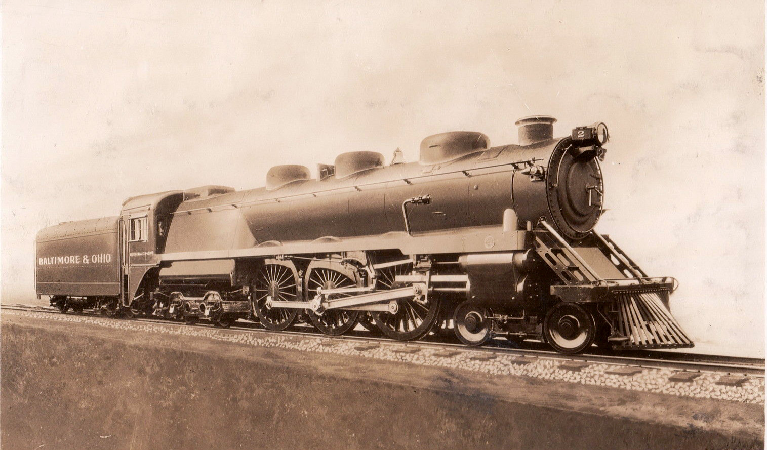 Builders' portrait of the Baltimore & Ohio 4-6-4 locomotive Lord Balitmore. These normally aren't copyright marked, but the card appears to have had top & bottom edges trimmed. A search for renewal was done in artwork for the years 1962 and 1963 there were no listings for Baltimore and Ohio Railroad. There's no evidence of current copyright.